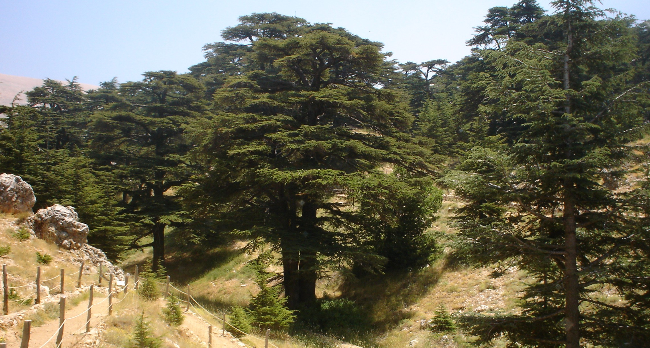 Cedrus libani var. libani — Lebanon Cedar; forest habitat. Located in El-Arz, Bsharri, Lebanon.